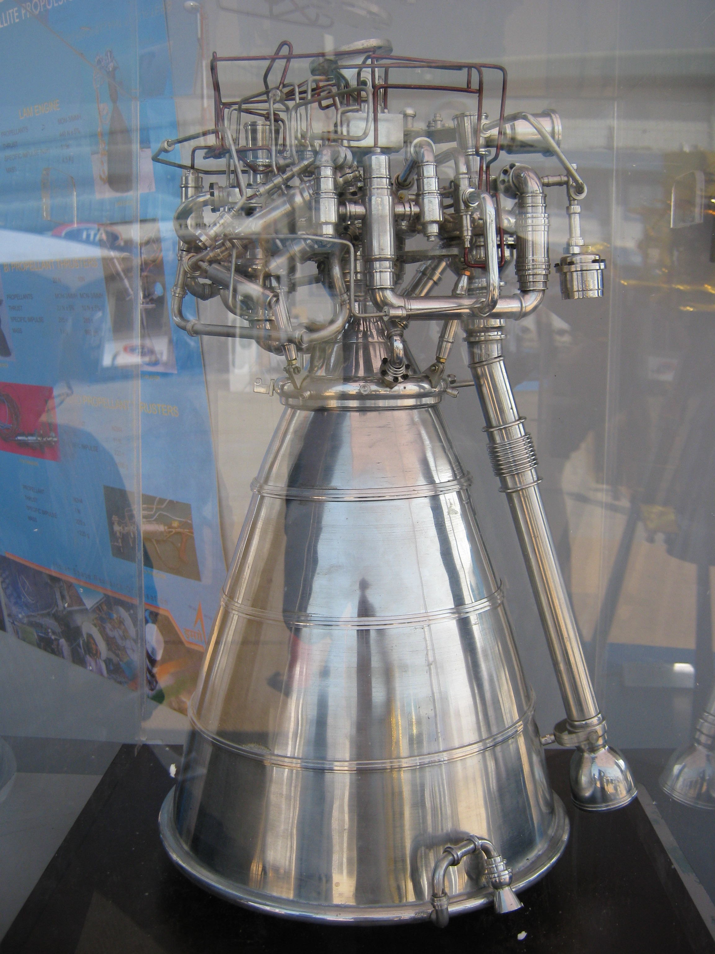 Indian Cryonic Engine on display